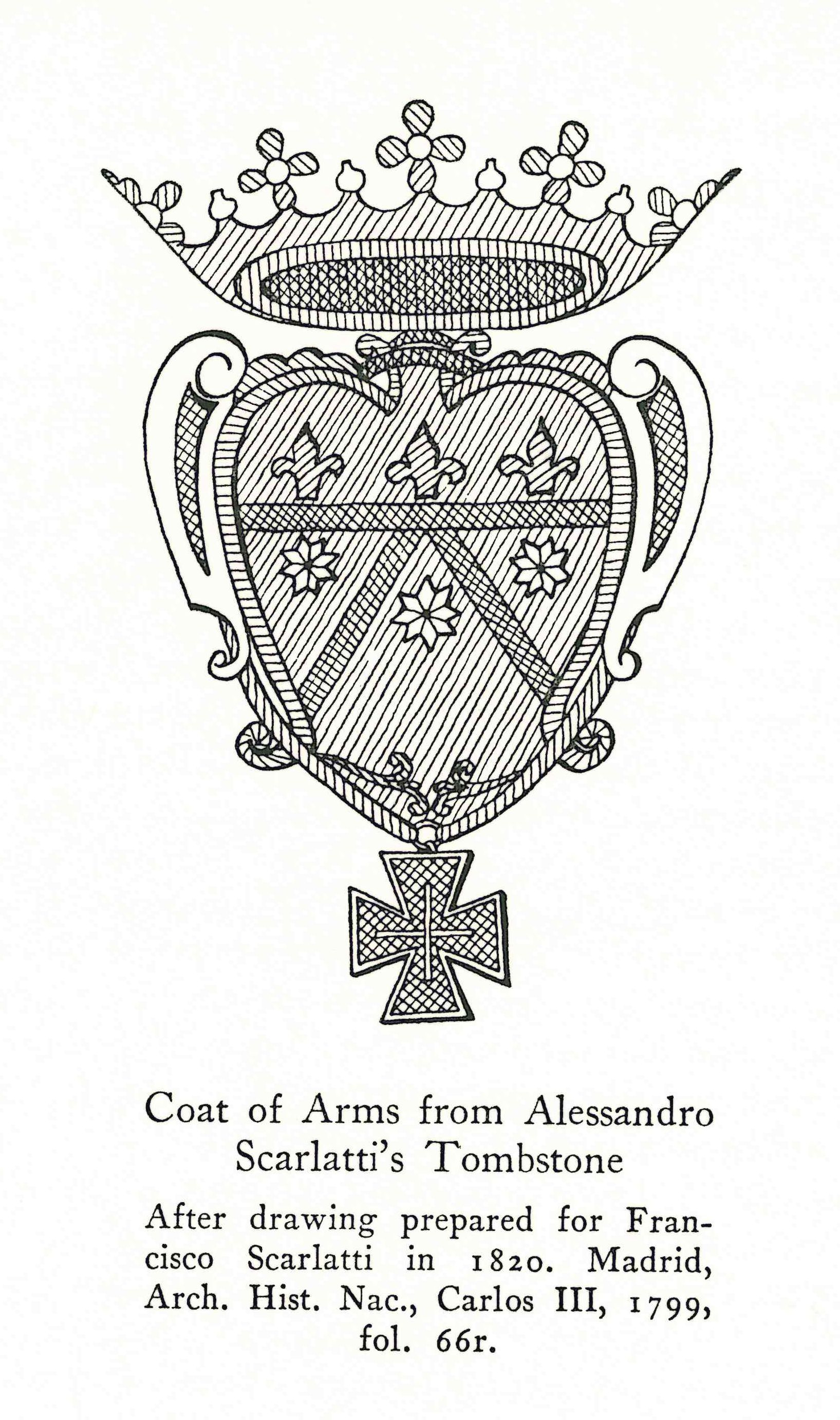 Coat of Arms from Alessandro Scarlatti's Tombstone